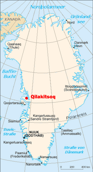 Map of Greenland showing Qilakitsoq